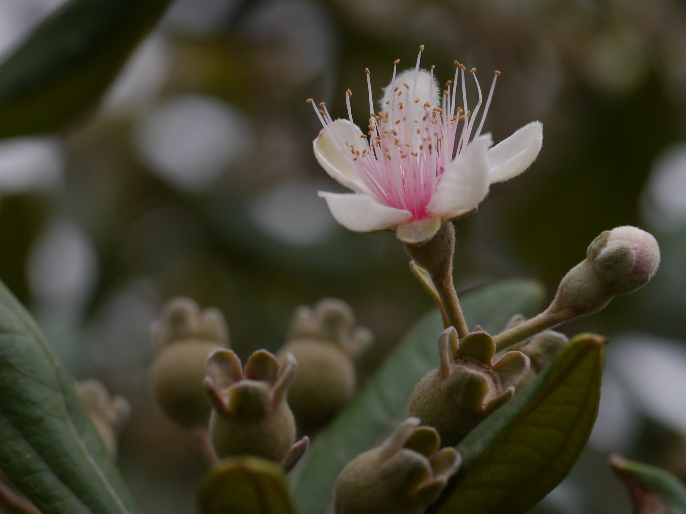 Myrtaceae (myrtle family) » Rhodomyrtus tomentosa (Aiton) Hassk. roh-doh-MIR-tus -- Greek: rhodo (red), myrtos (myrtle) ... Dave's Botanary toh-men-TOH-suh -- covered with fine, matted hairs ... Dave's Botanary commonly known as: Ceylon hill gooseberry, hill guava • Kannada: ತವುಟೆಗಿಡ tavutegida • Malayalam: കാട്ടുപേര kattupera, ചെറുകൊട്ടിലാമ്പഴം cerukottilampalam, കൊരട്ട koratta, തവിട്ടുമരം tavittumaram • Tamil: மலைக்கொய்யா malai-k-koyya, தவிட்டுக்கொய்யா tavittu-k-koyya Native to: s China, s India, Sri Lanka, s-e Asia; naturalized, widely cultivated References: Flowers of India • India Biodiversity Portal • Flora of China • Wikipedia • NPGS / GRIN